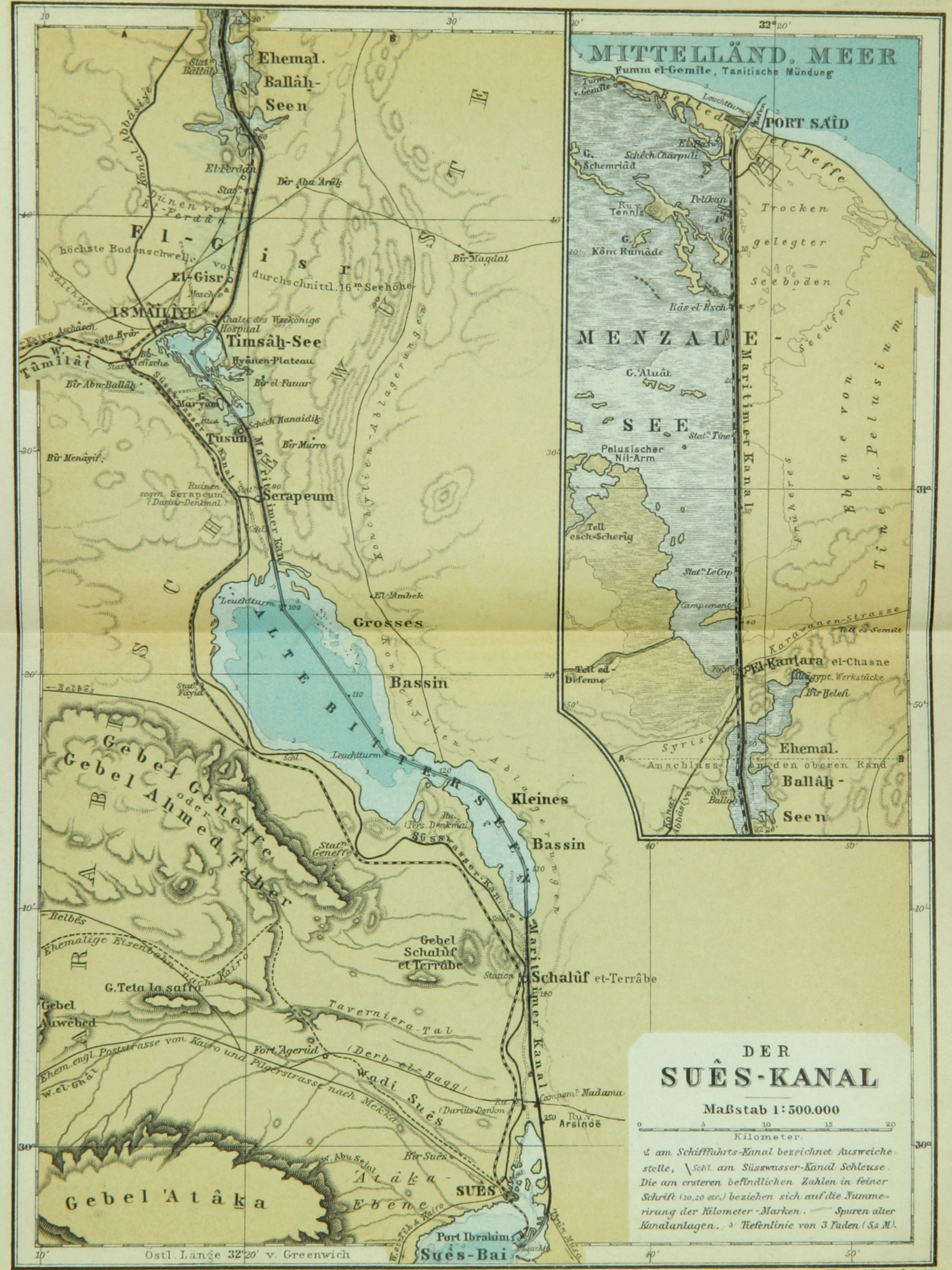 Map of the Suez Canal (1:500,000) in two parts; labelled in German.